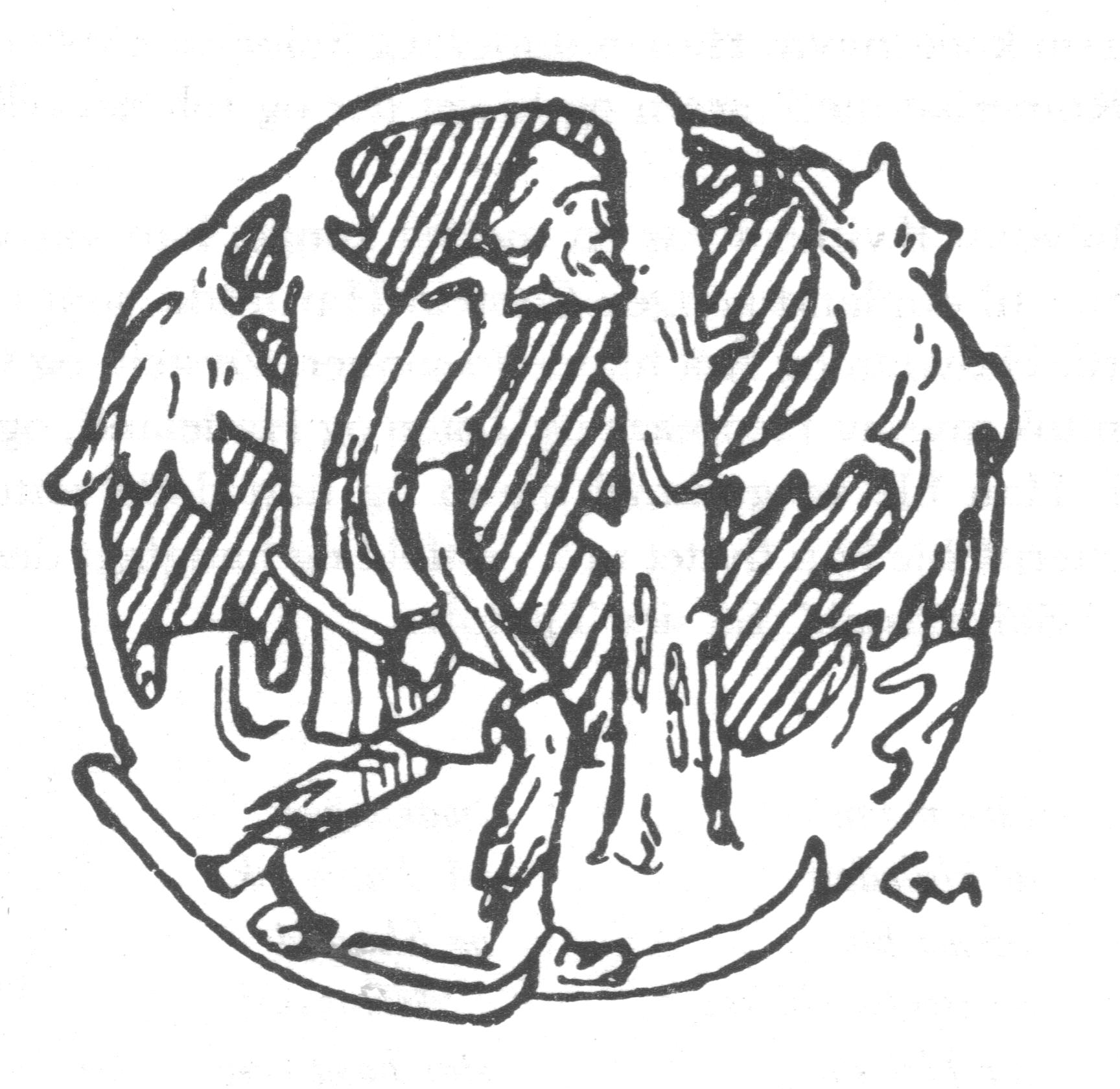 Gerhard Munthe: Illustration for Ynglingesaga. Snorre 1899-edition. 24